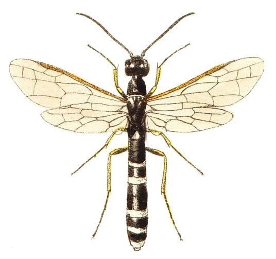 Hartigia linearis Cephidae